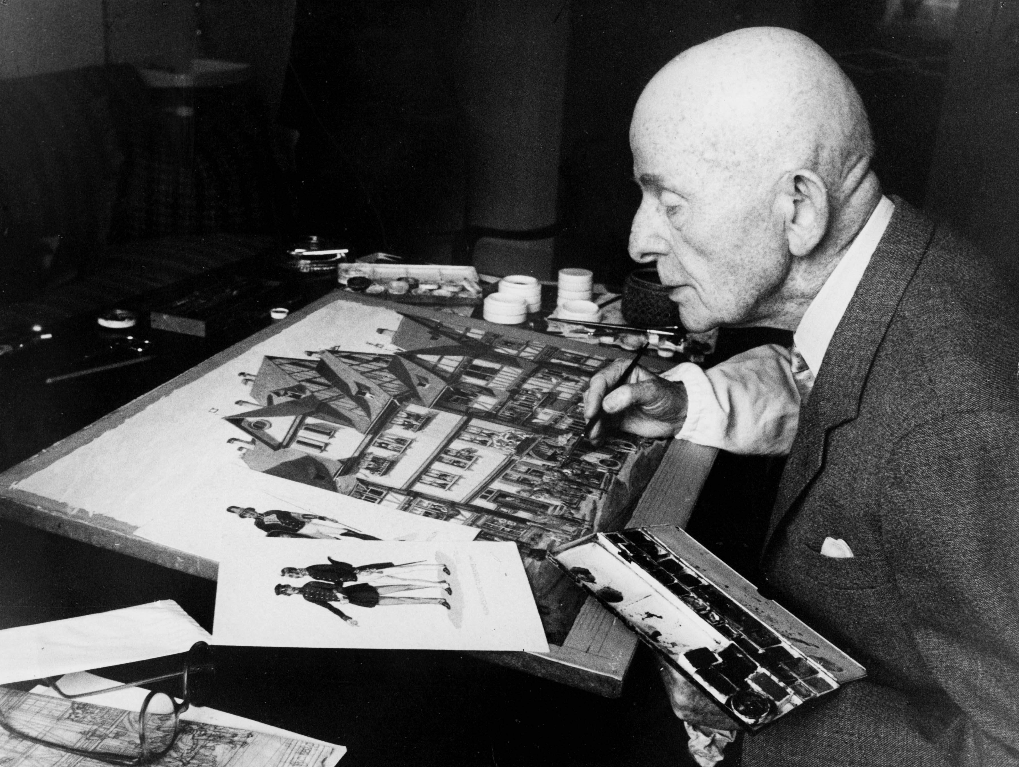 Ernst Metz bei der Arbeit